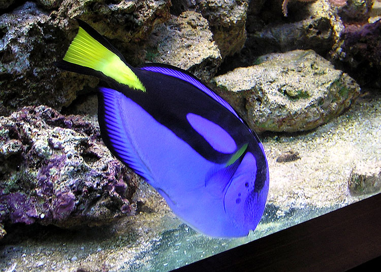 Regal Tang fish at Bristol Zoo, Bristol, England.